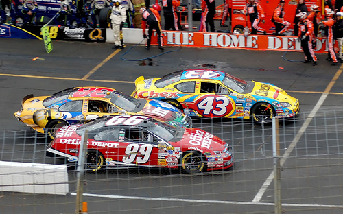 race to the end of pit lane: Carl Edwards #99, Elliott Sadler #38, Bobby Labonte #43